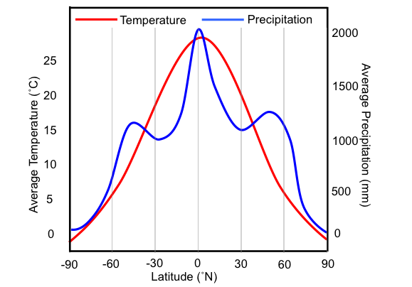 Global relationship between latitude vs. mean annual temperature and mean annual precipitation